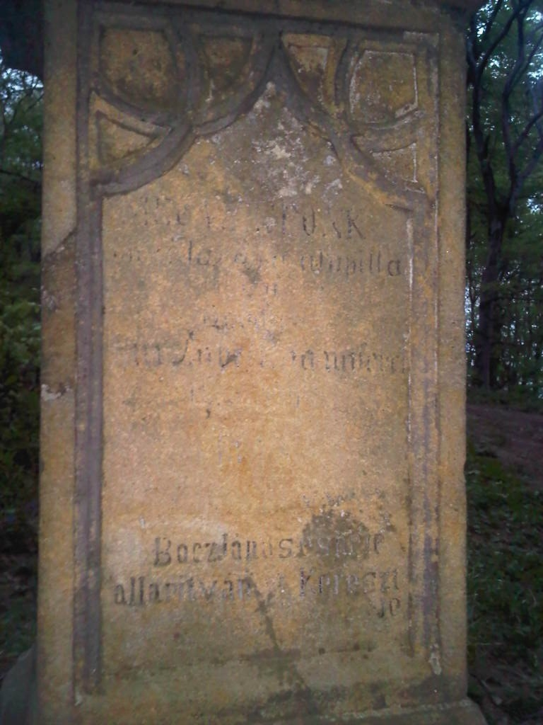 Inscription below the Baranyles cross (or Bocz cross) on the southern Hungarian Zengő mountain, Hosszúhetény village.